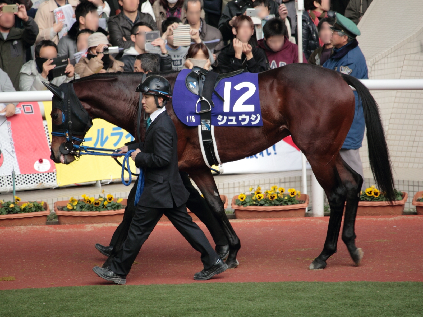 Shuji (Raehorse of Japan).